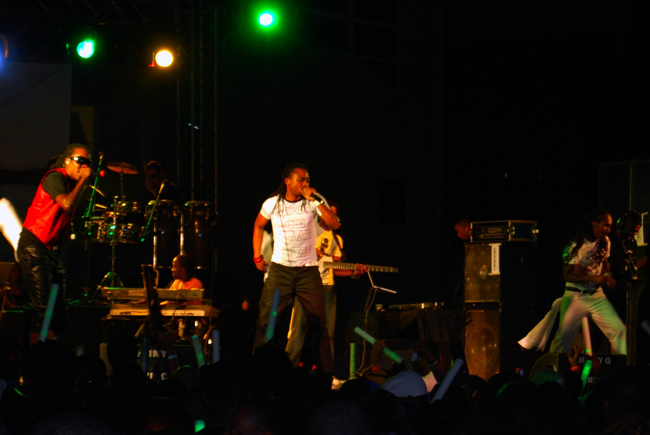 Photo of some people on a stage with microphones.